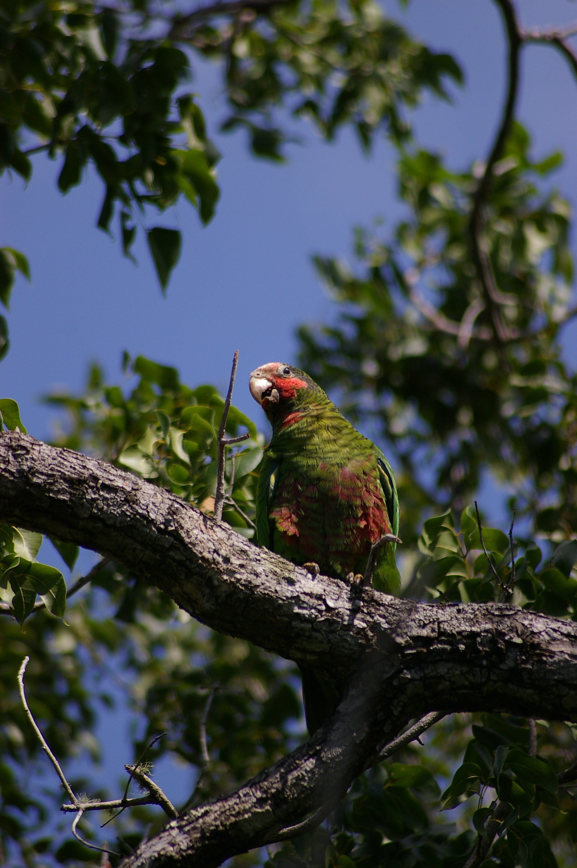 A Cuban Amazon in Grand Cayman, Cayman Islands, British West Indies. This subspecies is also called the Grand Cayman Amazon.